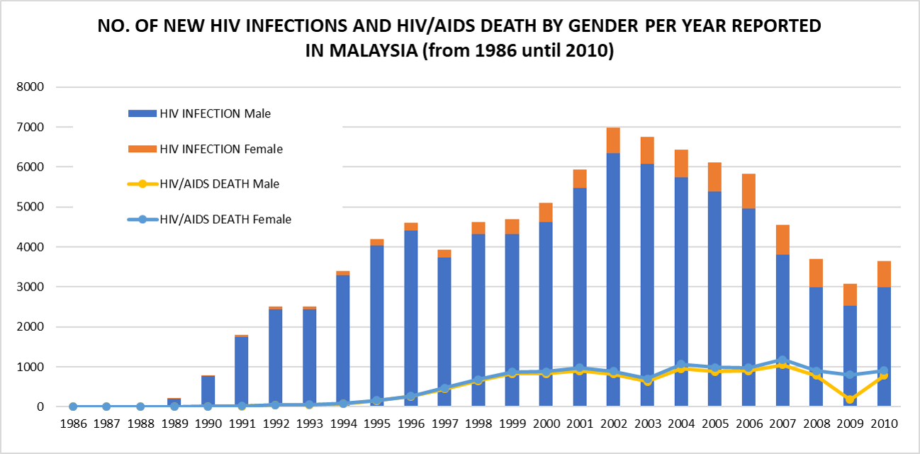 NO. OF NEW HIV INFECTIONS, AIDS CASES AND AIDS DEATHS BY GENDER PER YEAR REPORTED IN MALAYSIA (from 1986 until 2010) per statistics by Malaysia AIDS Council